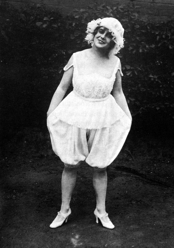 Mary Gräber